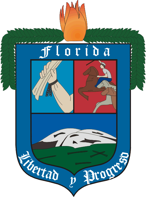 Coat of Arms of the Florida Department, Uruguay Drawn by: Jordevi